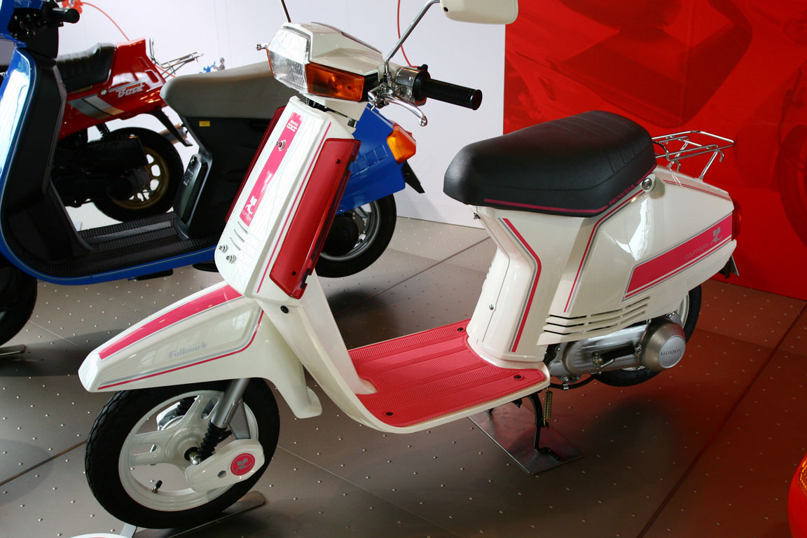 HONDA TactFullmark (André Courrèges Special) photographed in Honda Collection Hall.